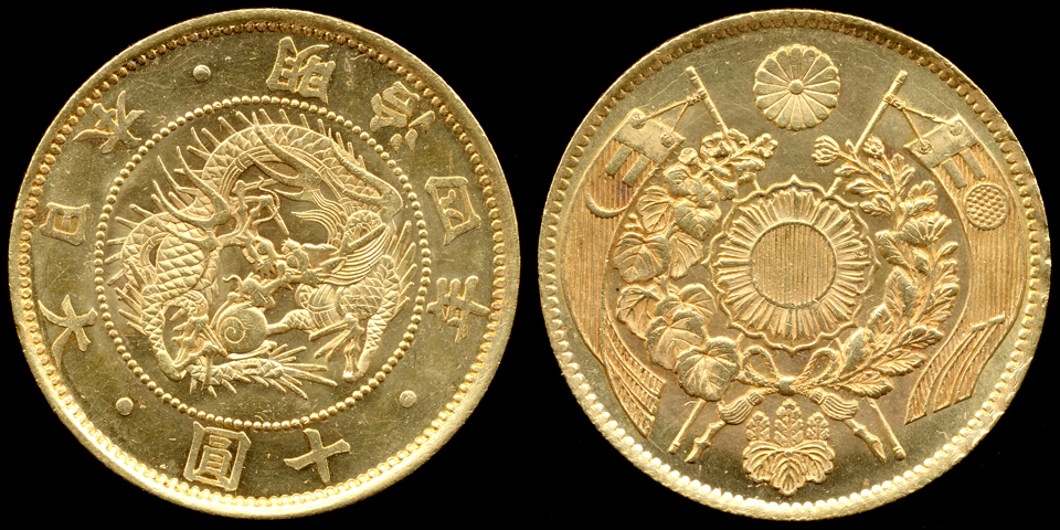 10yen-M4